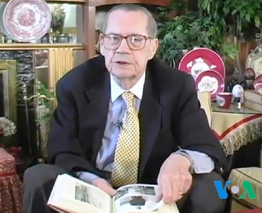 Prince David Chavchavadze, a retired CIA officer